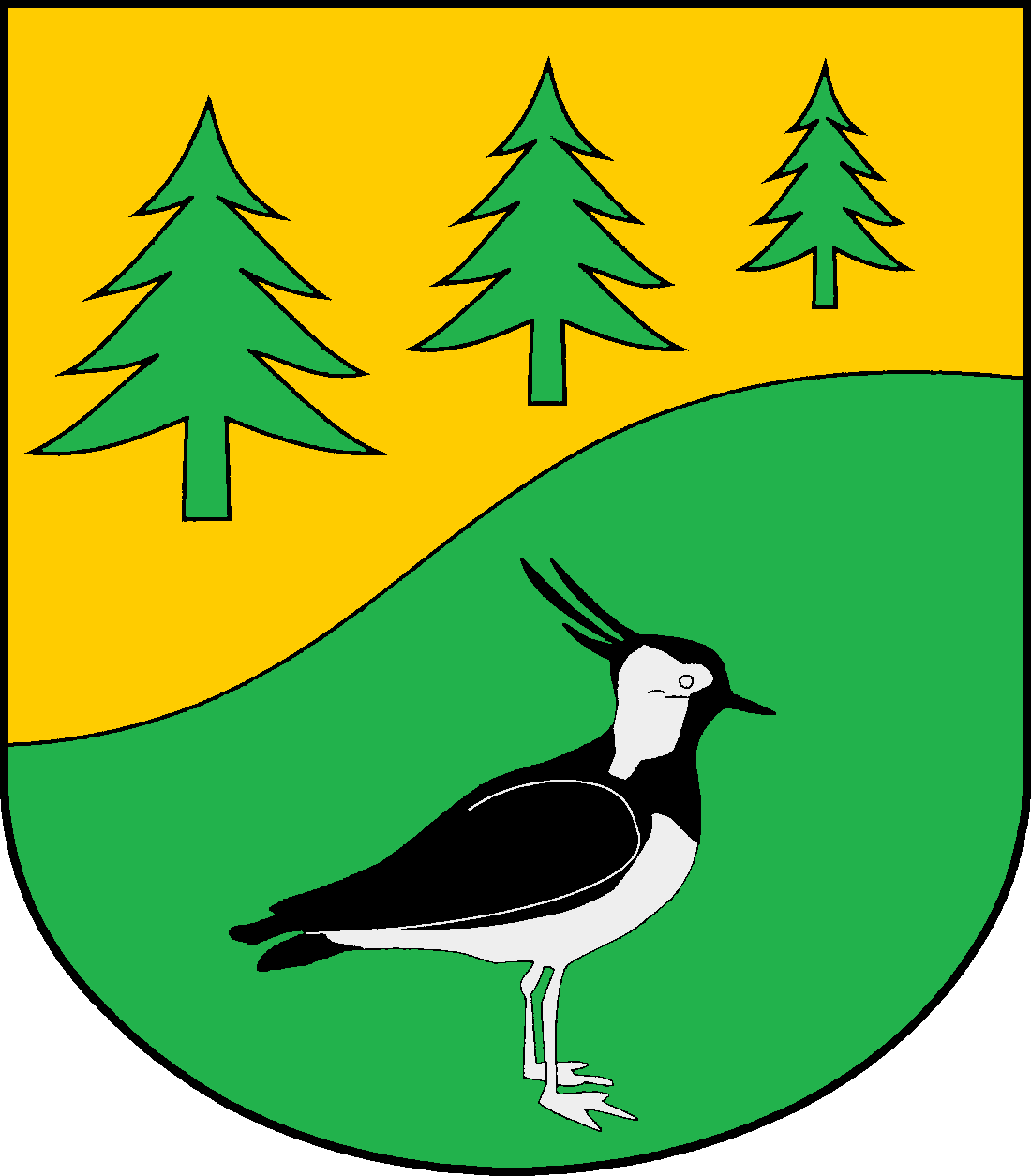 Coat of arms of the municipality Brunsmark in Schleswig-Holstein, Germany.